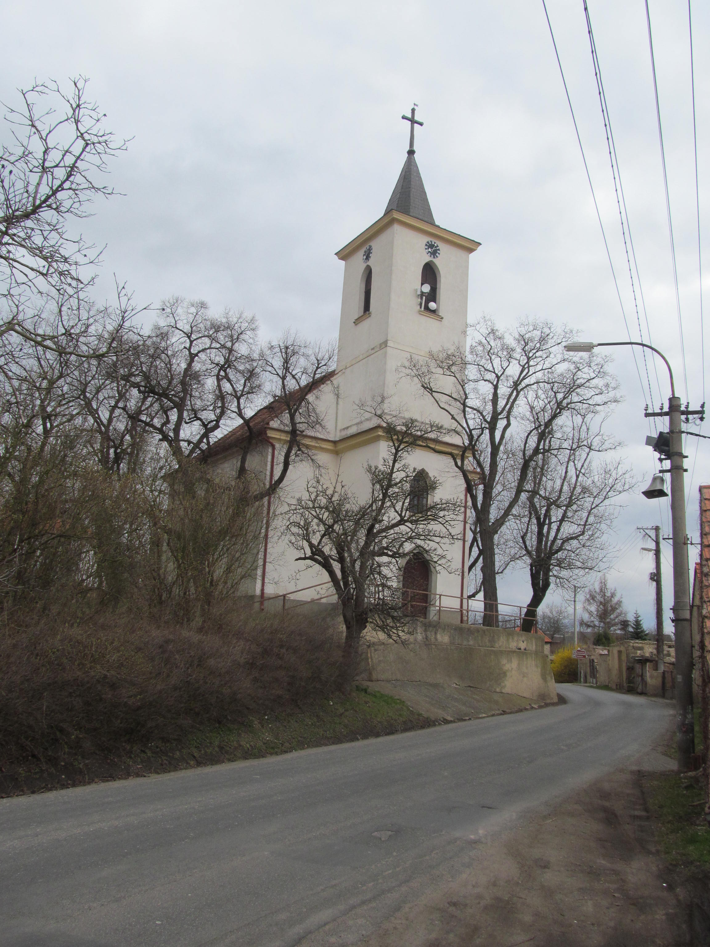 Church of Saint John the Baptist in Klapý